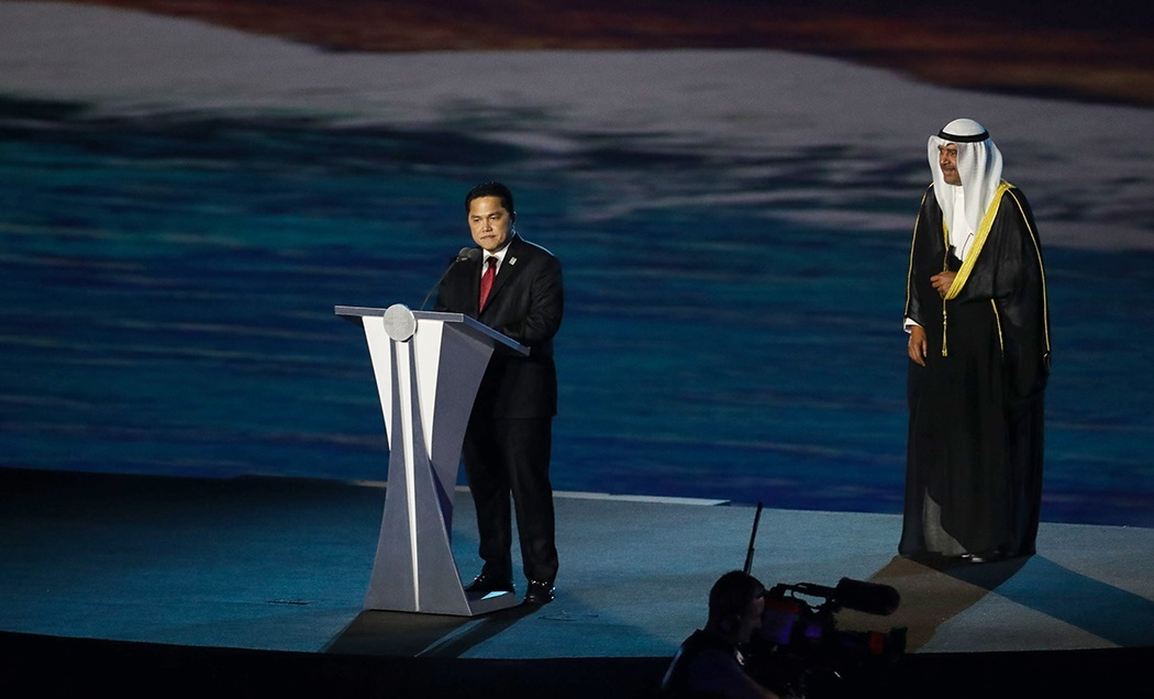 2018 Asian Games opening ceremony